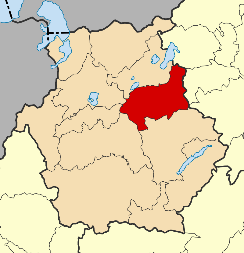 Locator map for Eordea municipality in Greek region West Macedonia (2011)